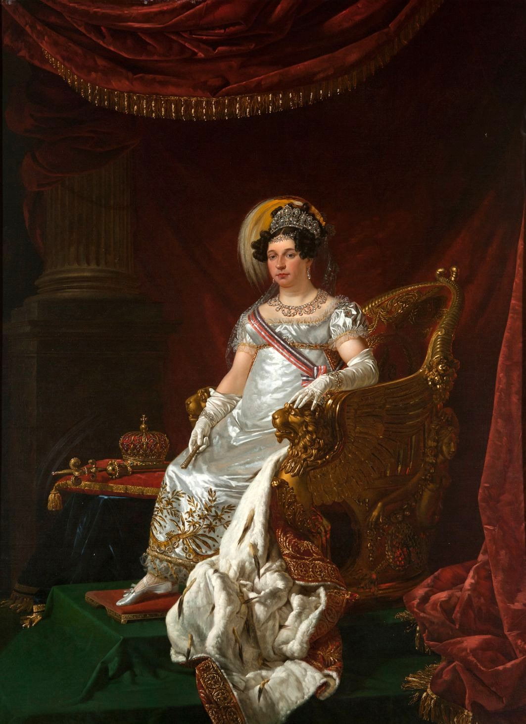 María Isabella of Spain (1789-1848)